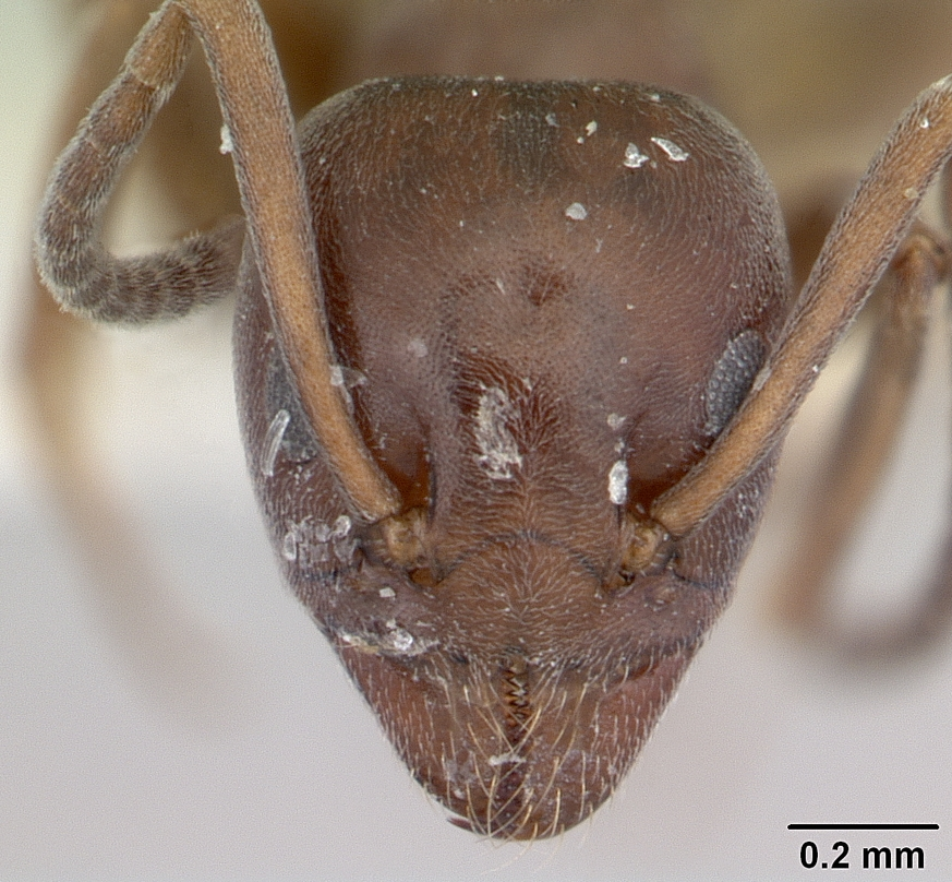 Head view of ant Tapinoma simrothi specimen casent0178242.